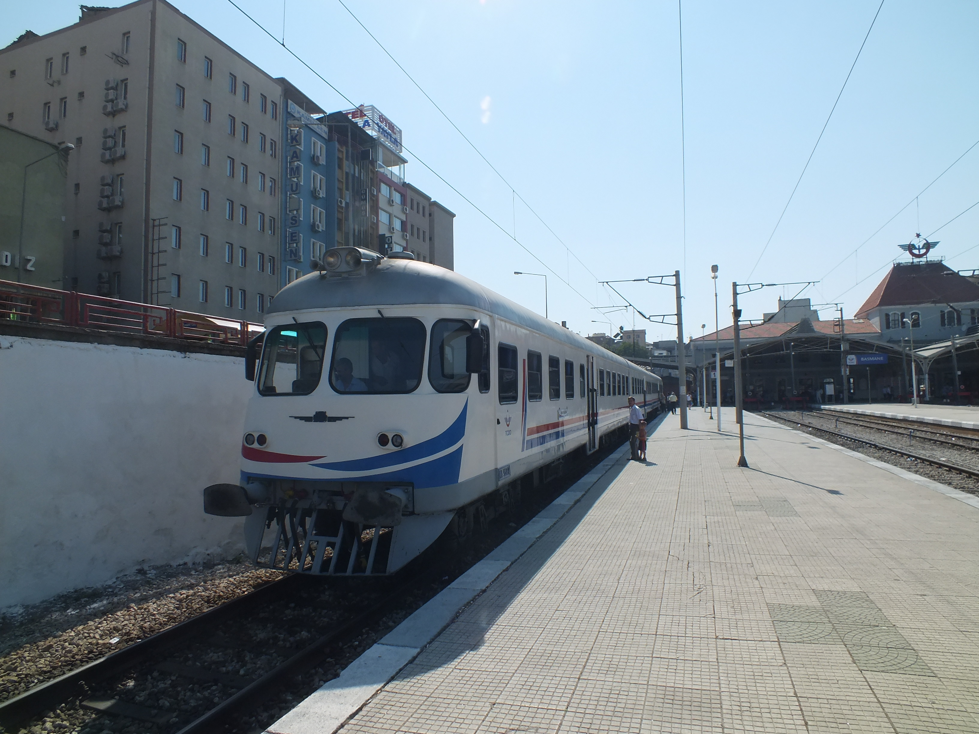 MT55097 waits to depart Basmane Terminal for Tire.